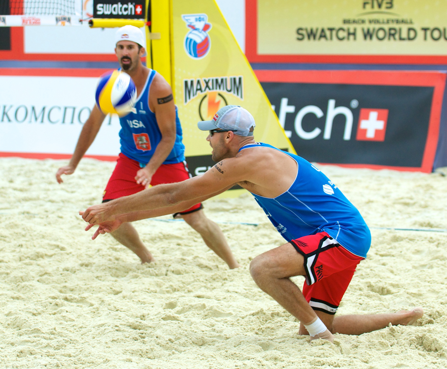 Grand Slam Moscow 2011